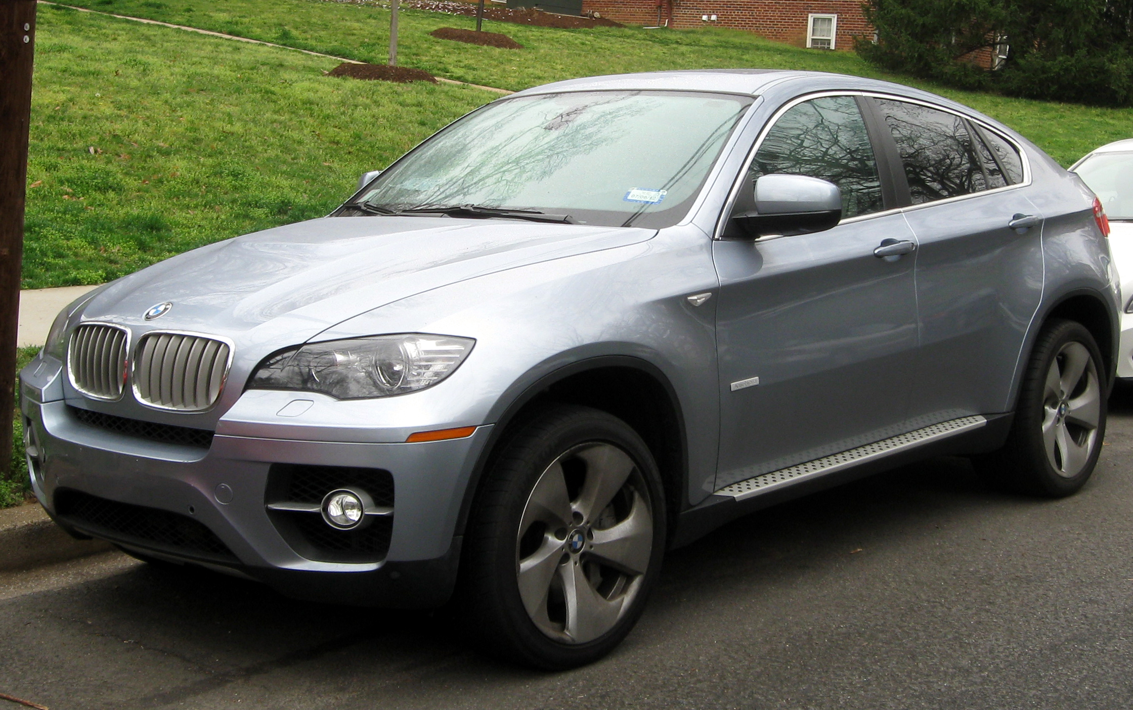 BMW X6 hybrid photographed in Washington, D.C., USA.